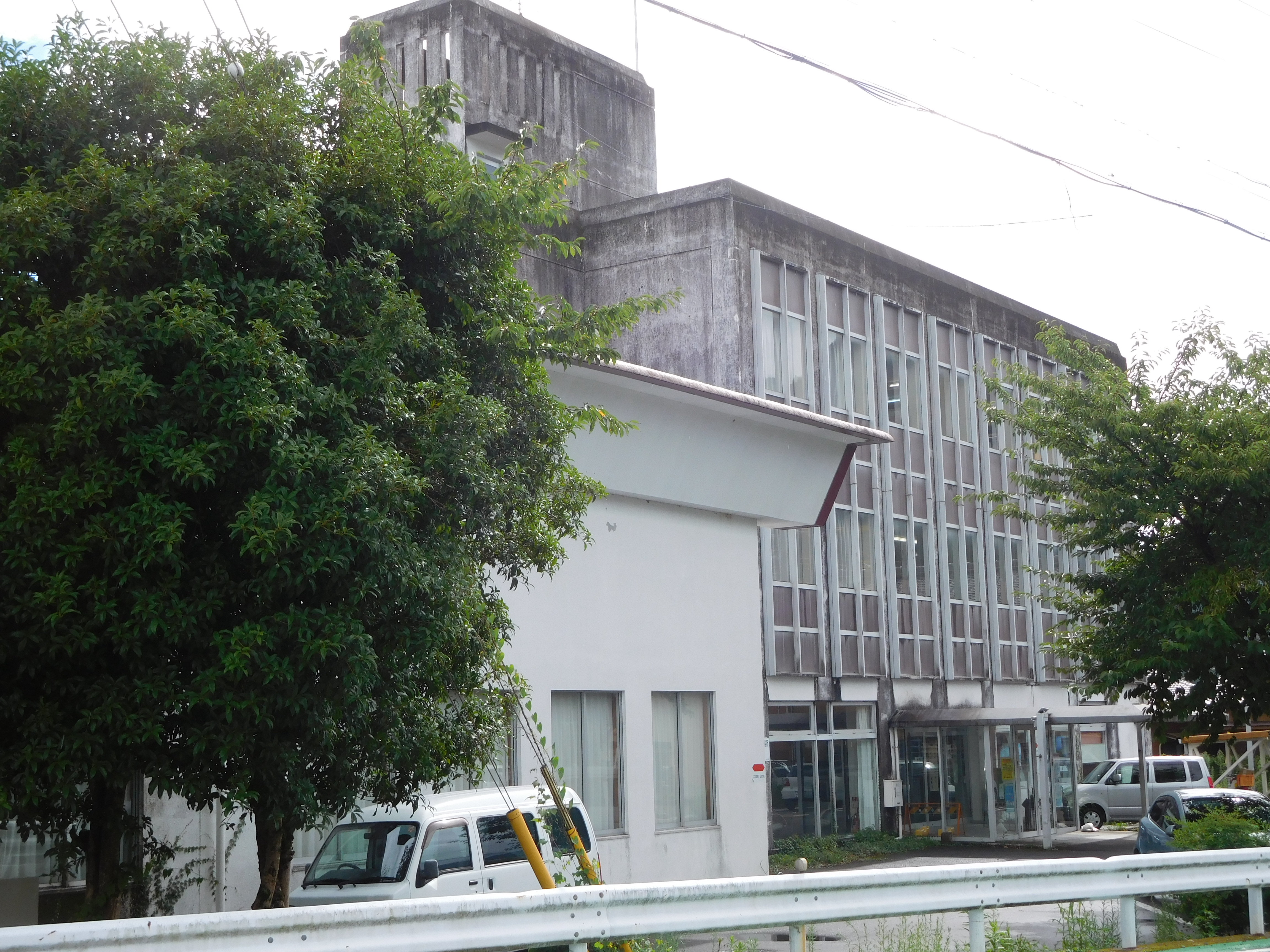 This is Kihoku towner's Hall or Kihoku-cho Chomin Kaikan in Kihoku, Mie, Japan. It has Kihoku Town Library Miyama Branch.